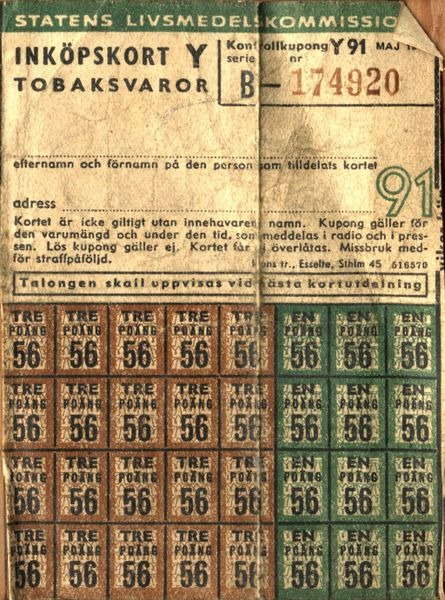 A swedish Ration stamp used under WWII.